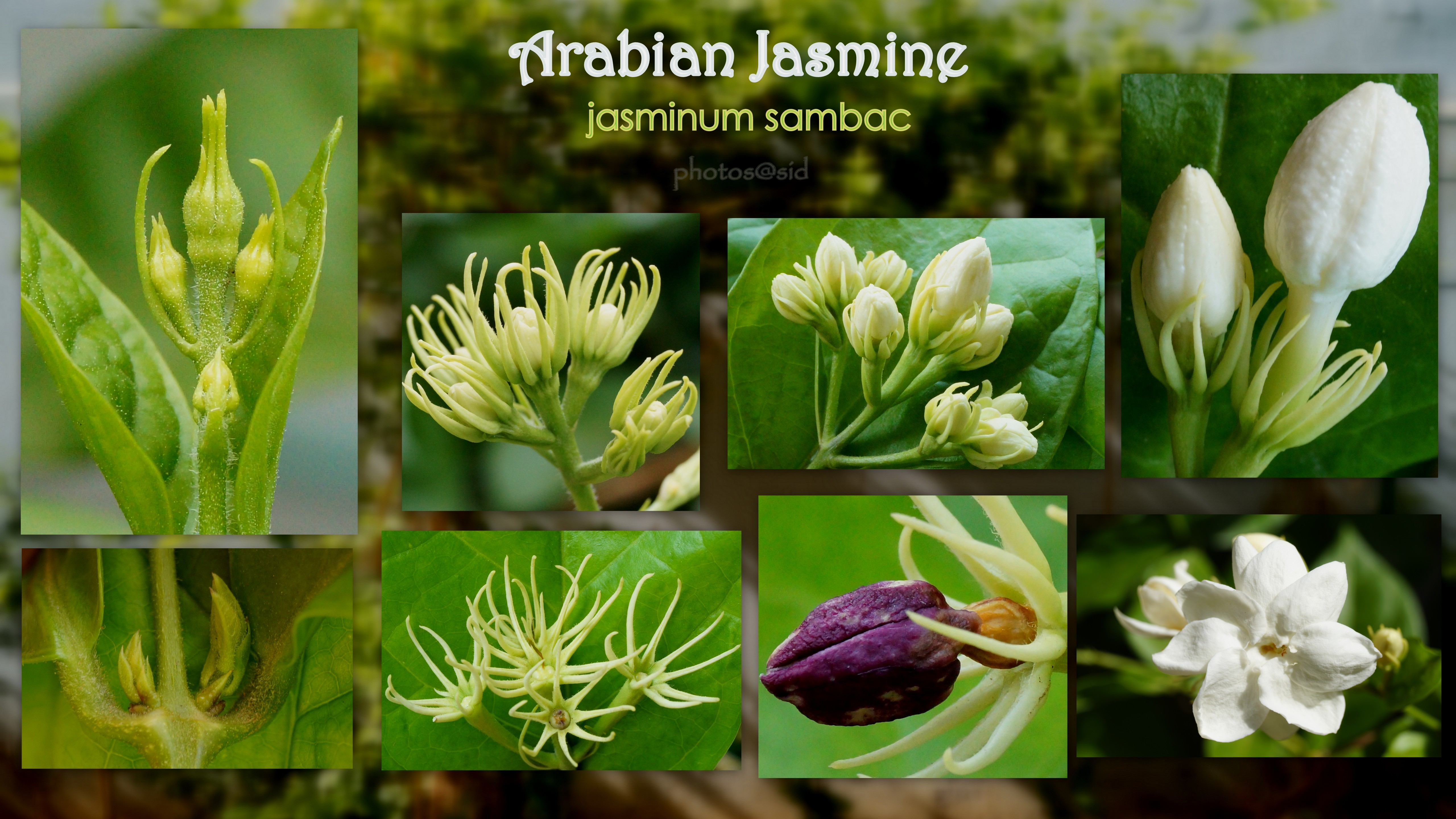 jasmine lifecycle collage